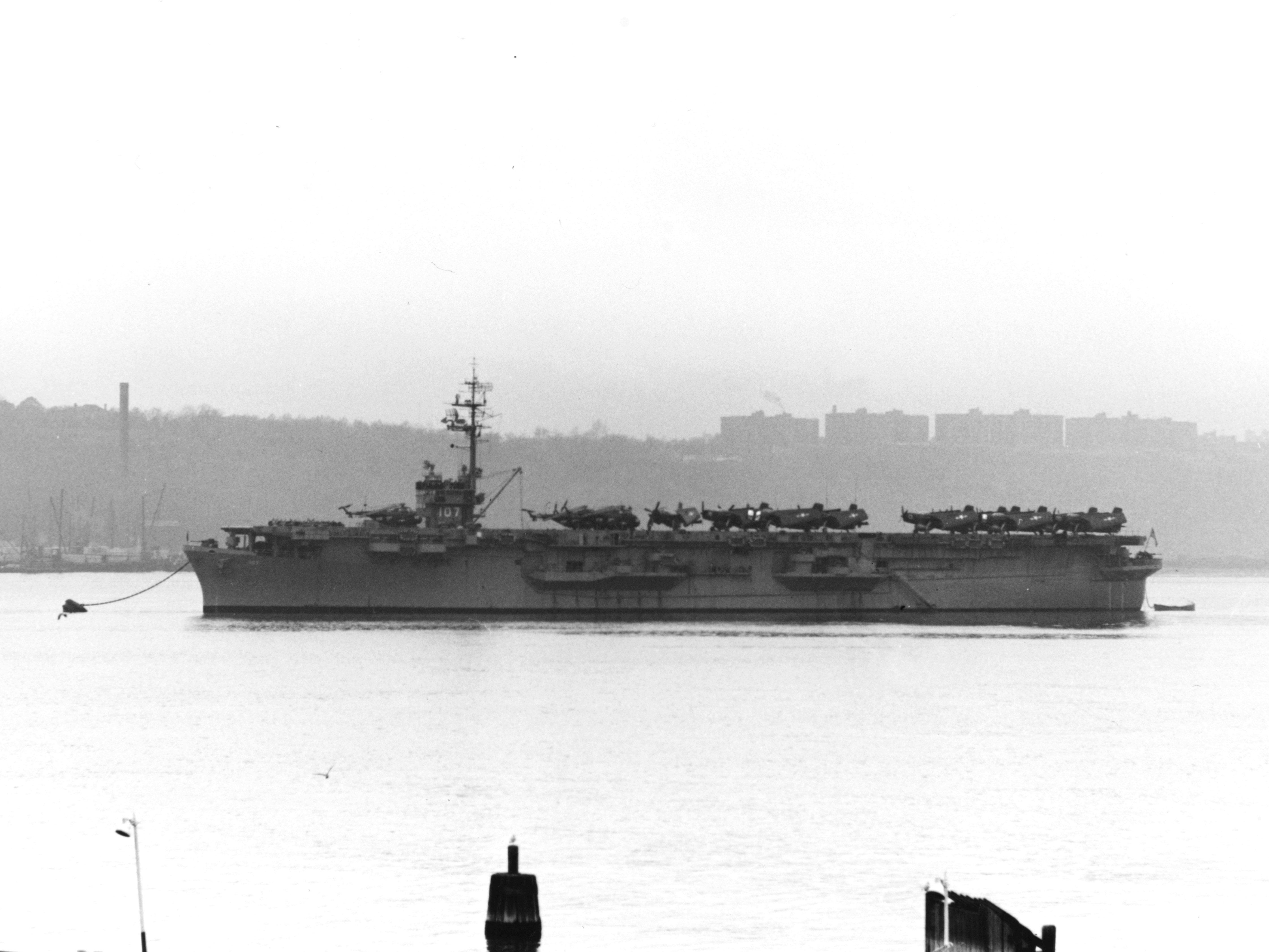 The U.S. Navy escort carrier USS Gilbert Islands (CVE-107) moored off New York City (USA), on 10 November 1953.